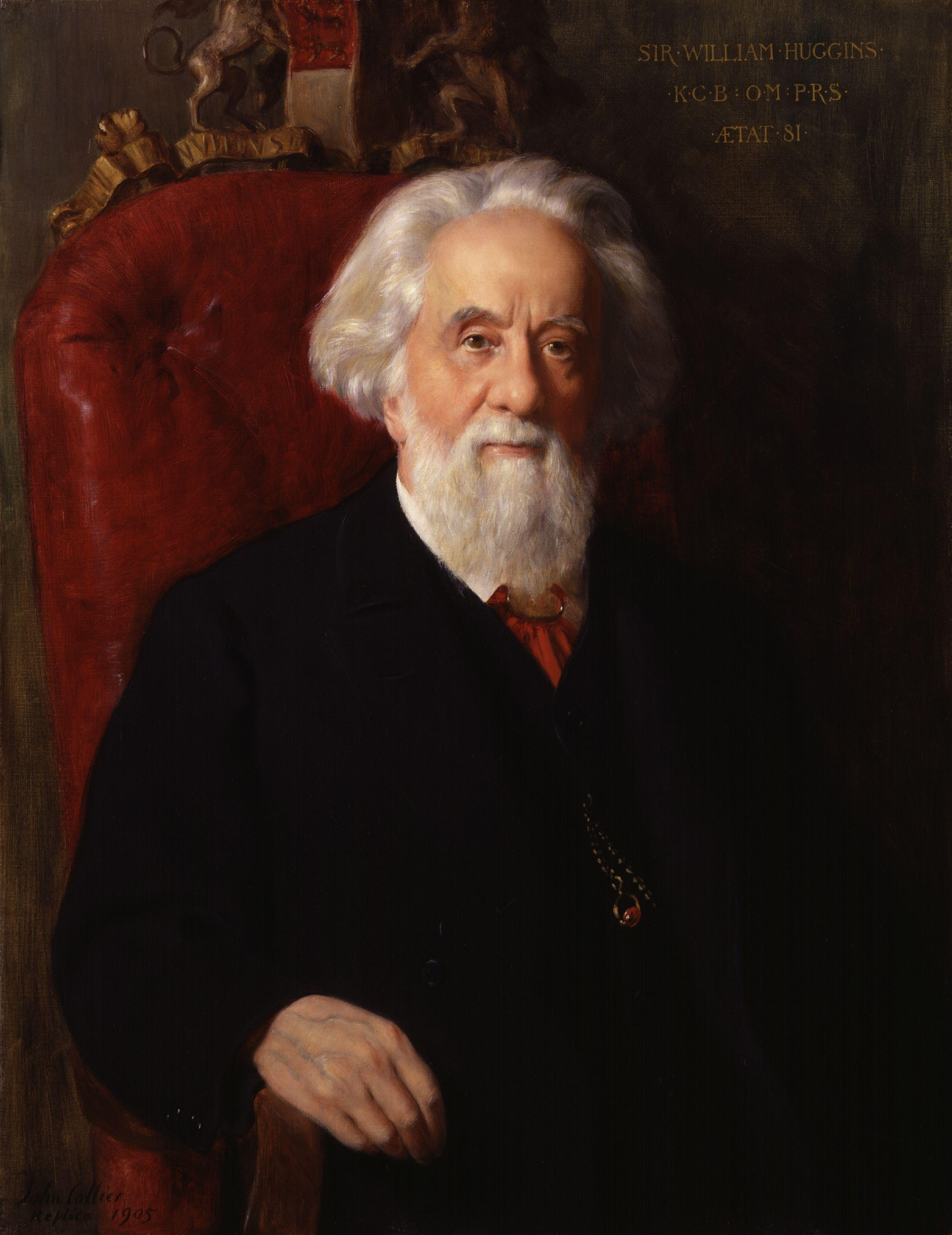 Sir William Huggins, by John Collier (died 1934), given to the National Portrait Gallery, London in 1912. All images in this batch have been confirmed as author died before 1939 according to the official death date listed by the NPG.